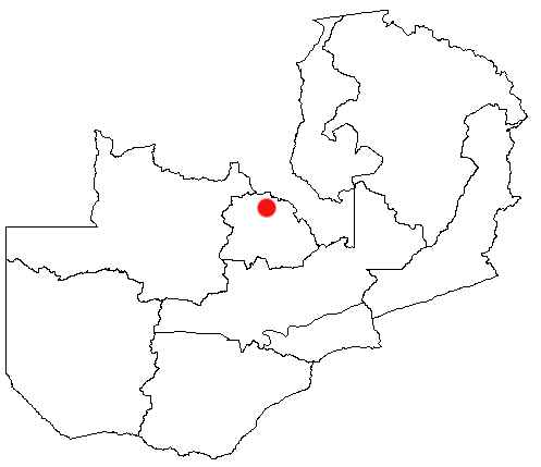 Chingola, Zambia Location Map; created with the GIMP.